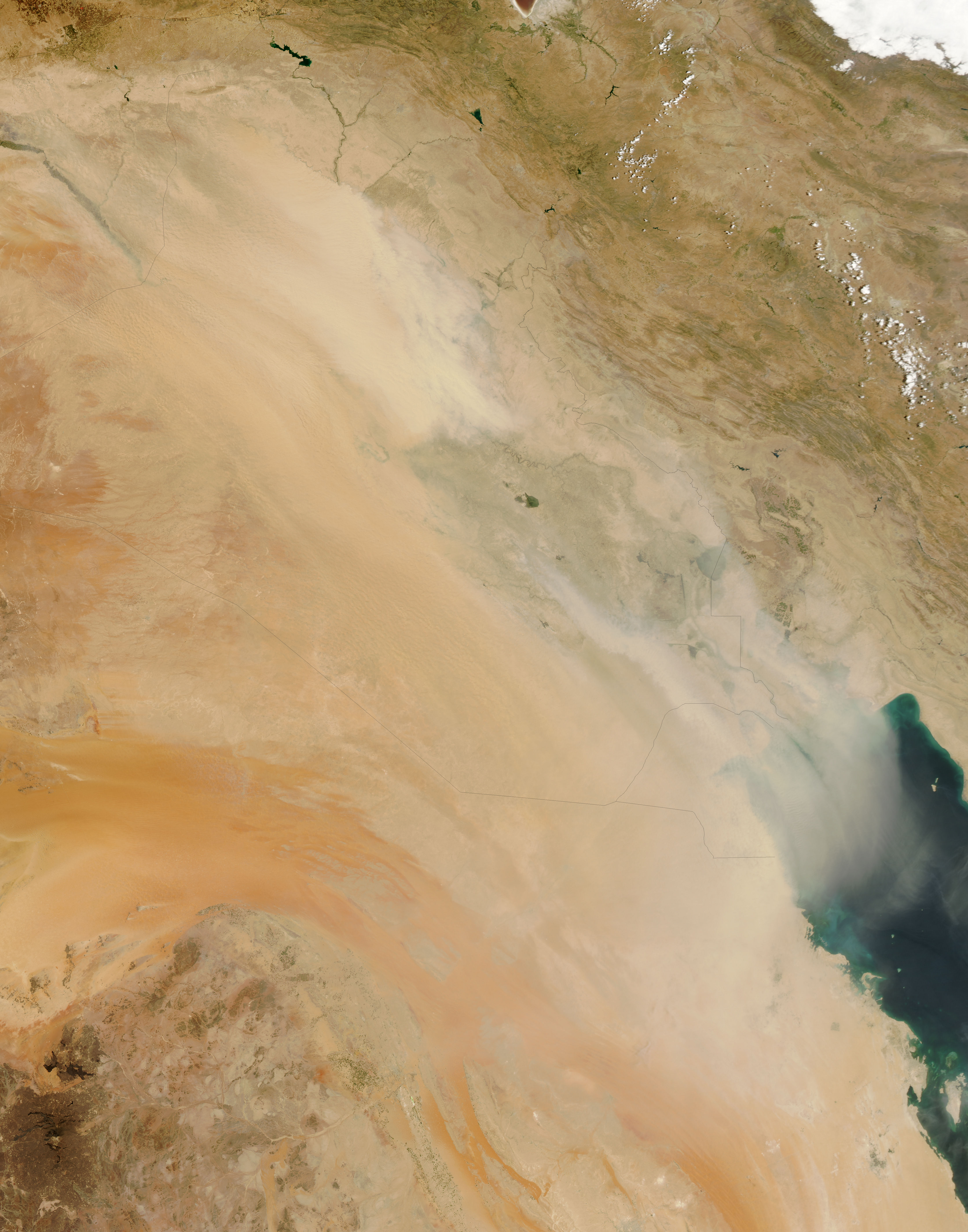 This true-colour image was captured on the second consecutive day of heavy dust over the country. Thick dust blows south-eastward over the Tigris and Euphrates floodplain and the Persian Gulf. The dust is thick enough to completely hide the land surface and water bodies below.